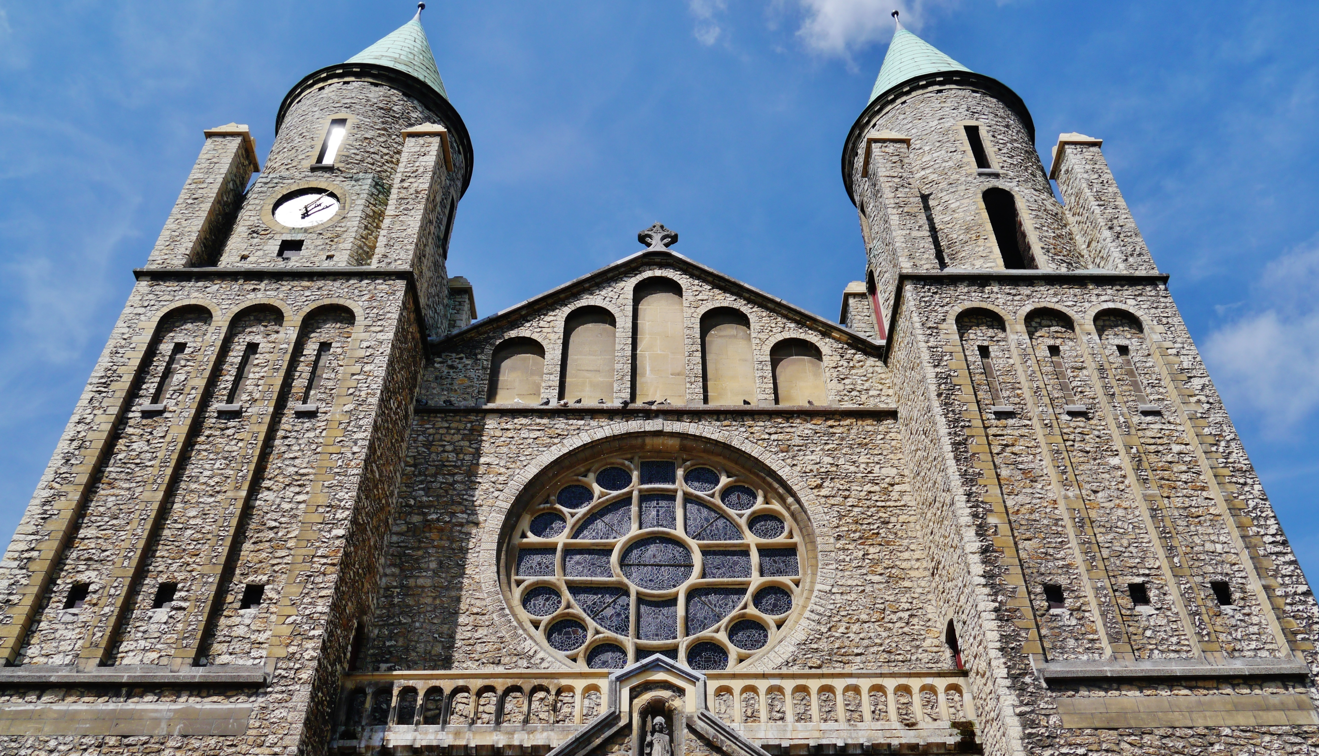 Facade of St. Lambert, Maastricht, Province of Limburg, Netherlands